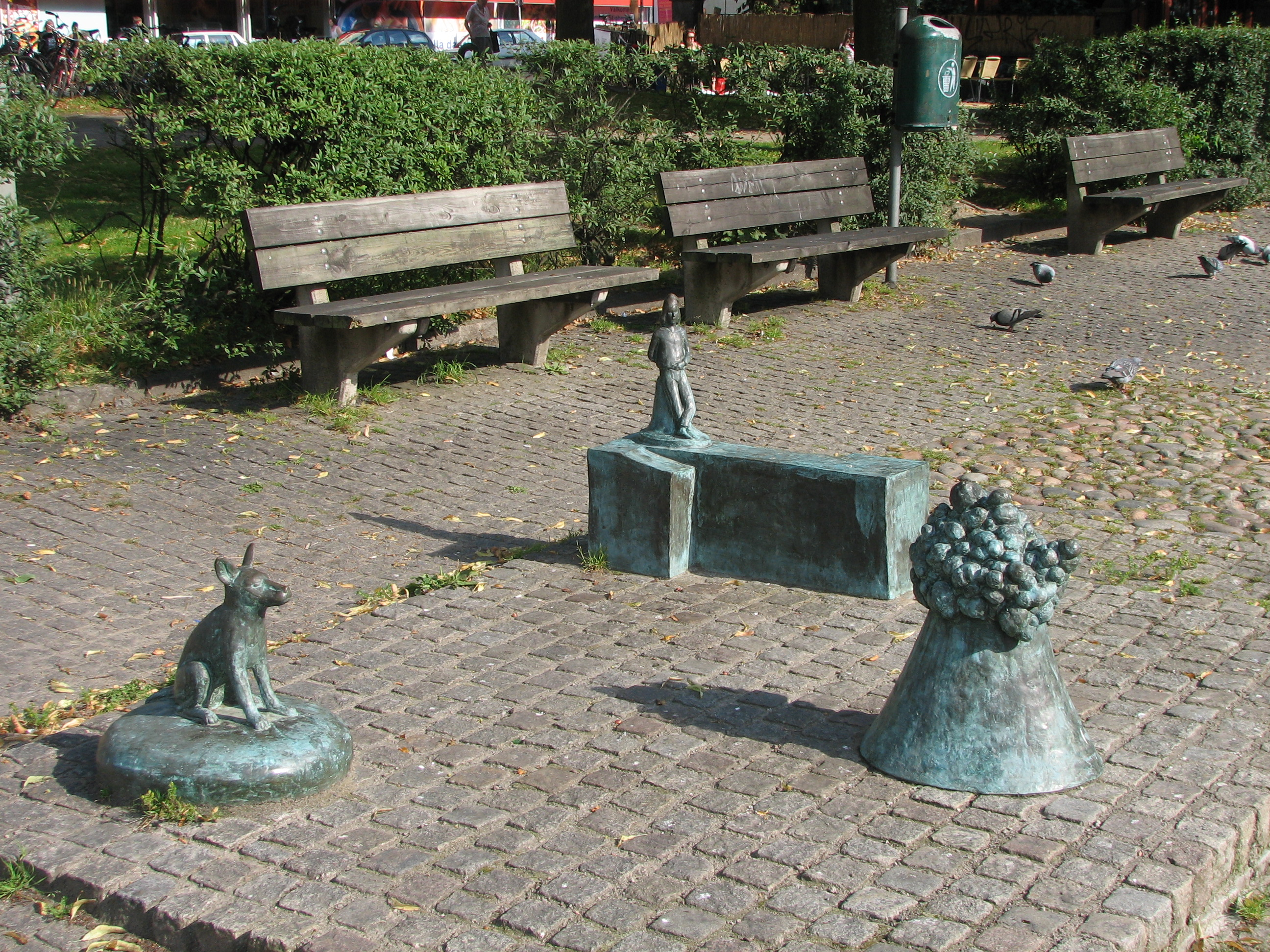 The sculpture Ett segelfartyg sover i hamnen (A sailing-ship sleeping in the harbour) at Stigbergstorget in Göteborg, Sweden. Sculptor Bianca Maria Barmen. View direction SE.